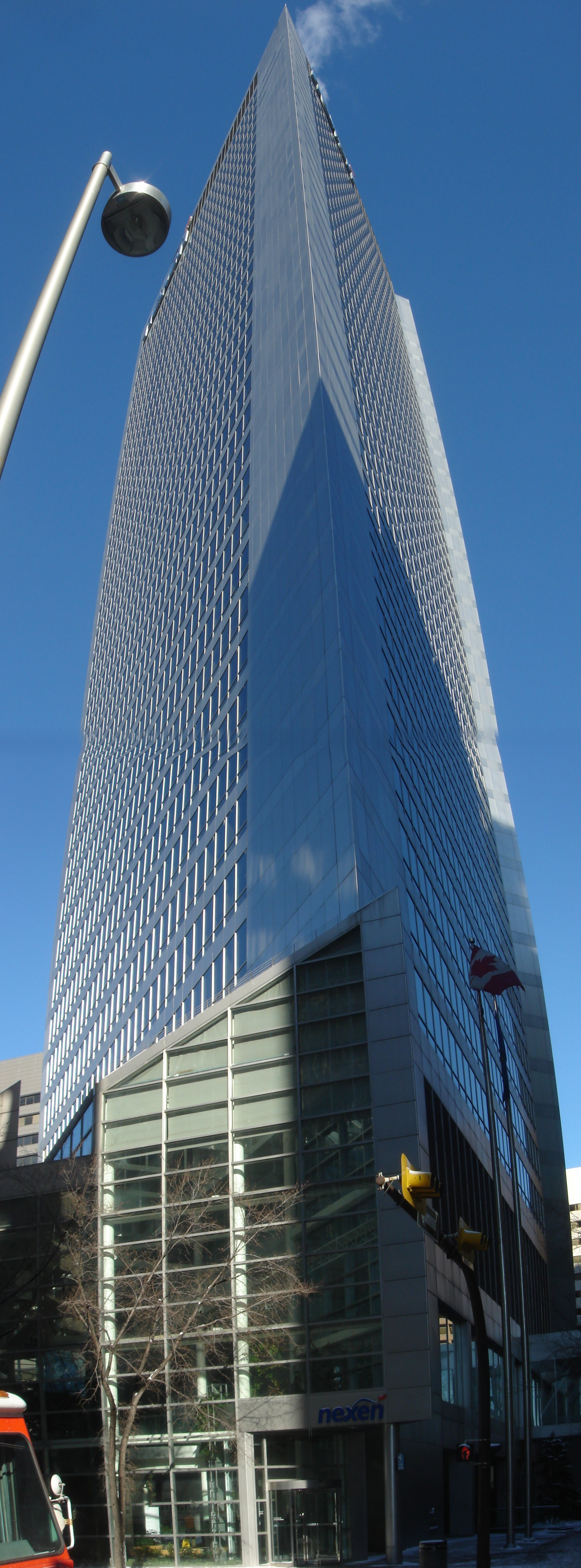 Nexen Building, Calgary Alberta